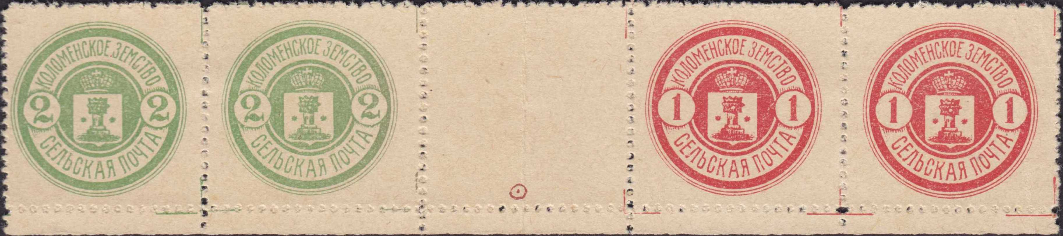 Zemstvo postage due stamp, Kolomna, Moscow Governorate, Russia. 4-Block with gutter.